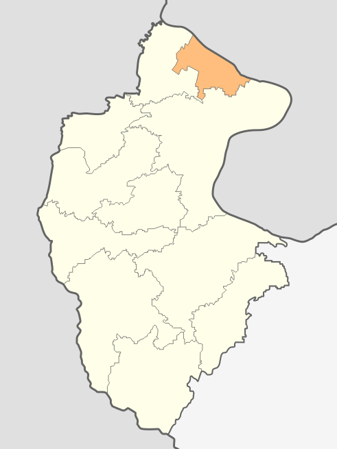 Map of Novo selo municipality, Vidin Province